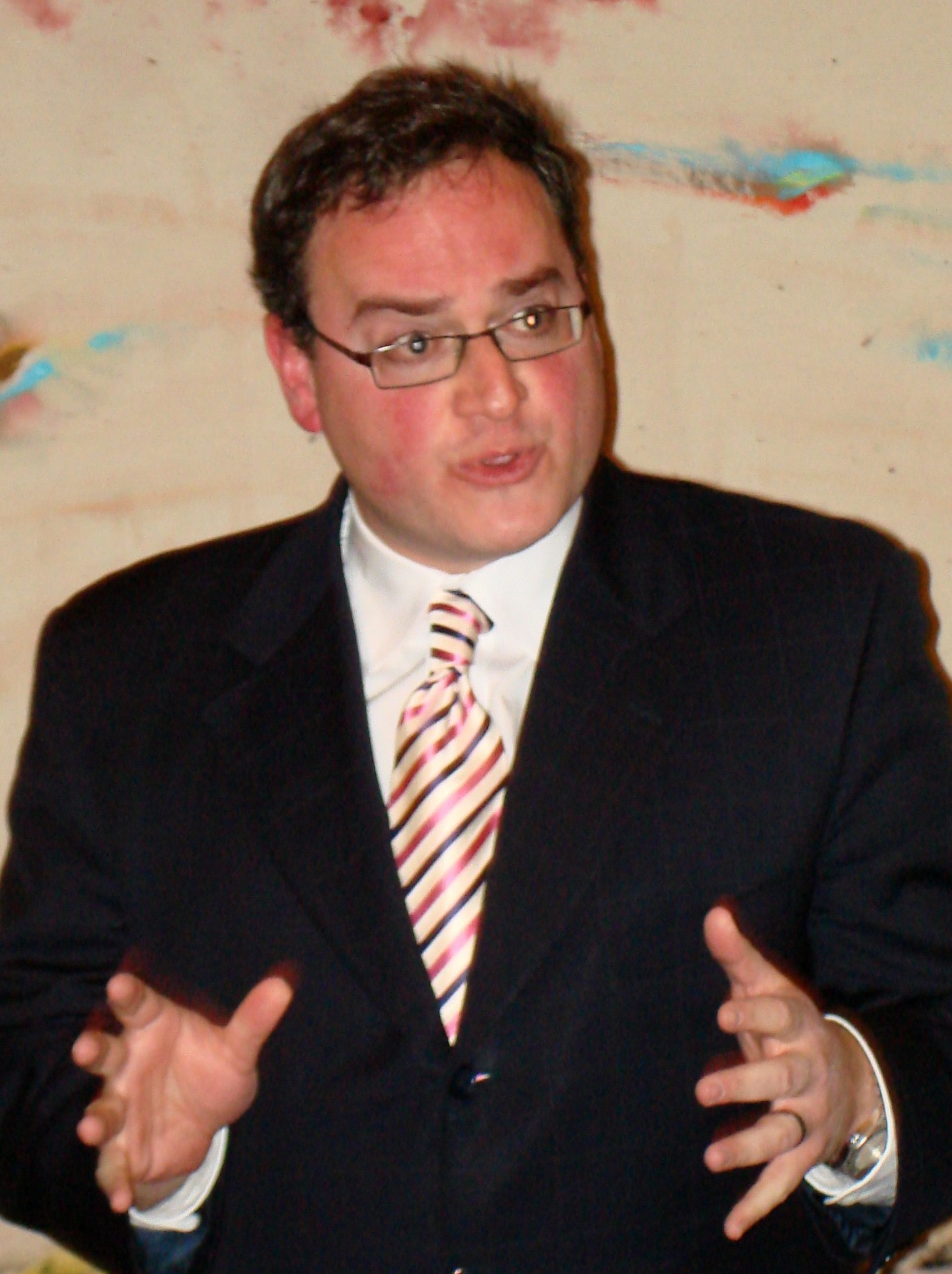 Ezra Levant - Levant, Mohamed, and the Case for Freedom of Speech with Ezra Levant - read more at